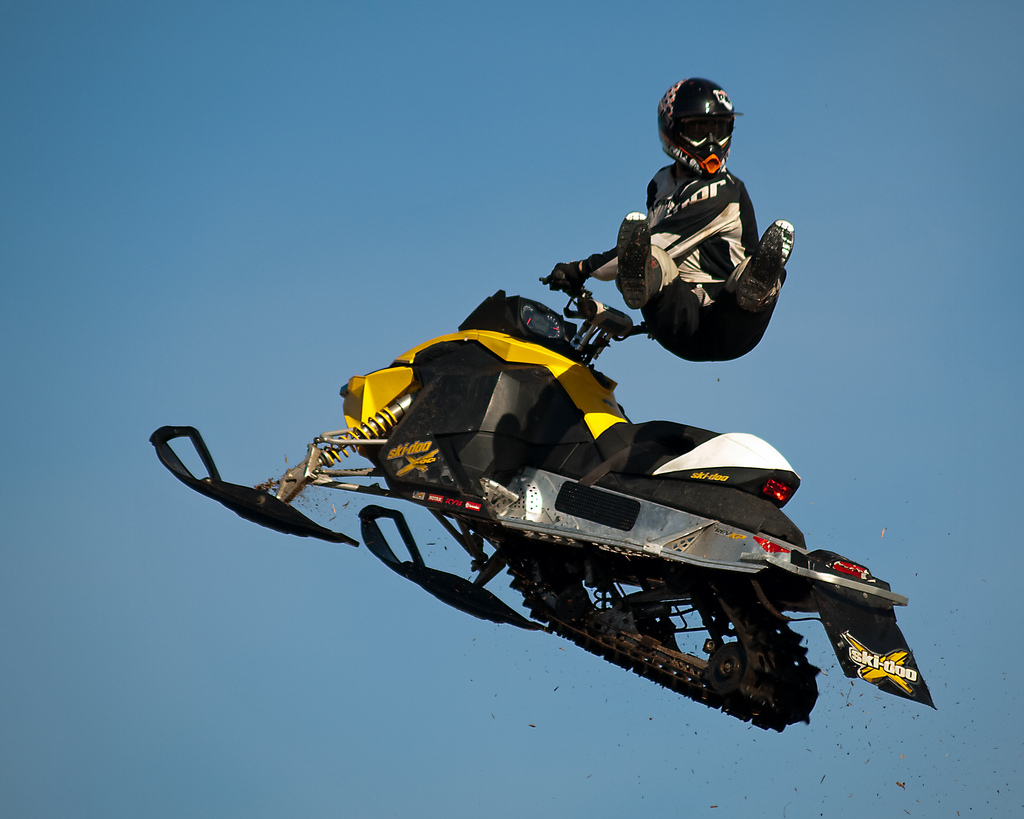 X-treme skidoo at the Toronto Sportsman Show